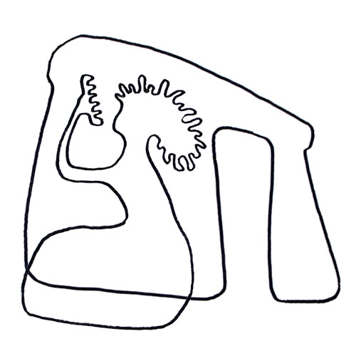 Lamia in Basque Mythology